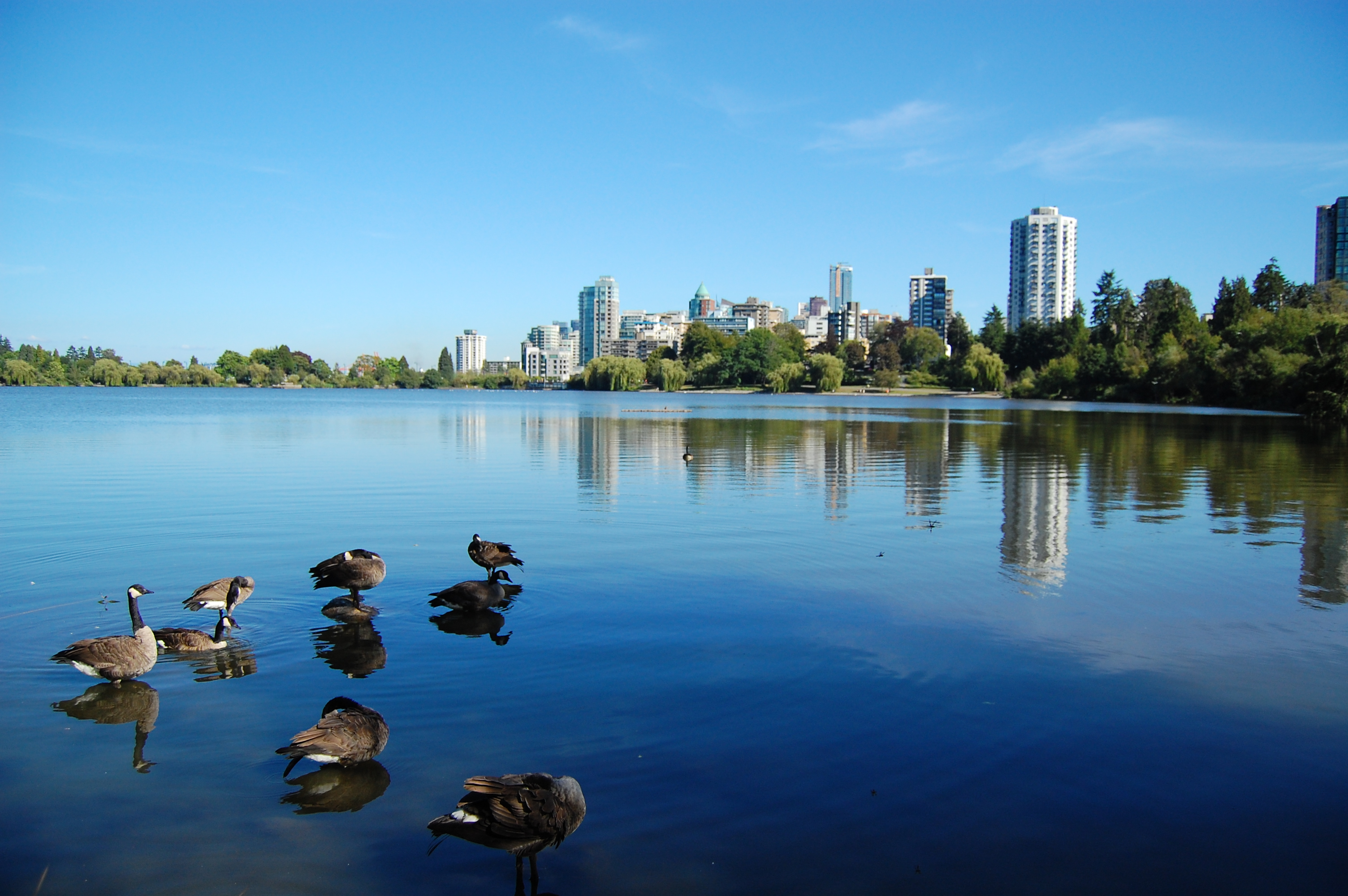 Partial view of Downtown Vancouver from Stanley Park's Lost Lagoon